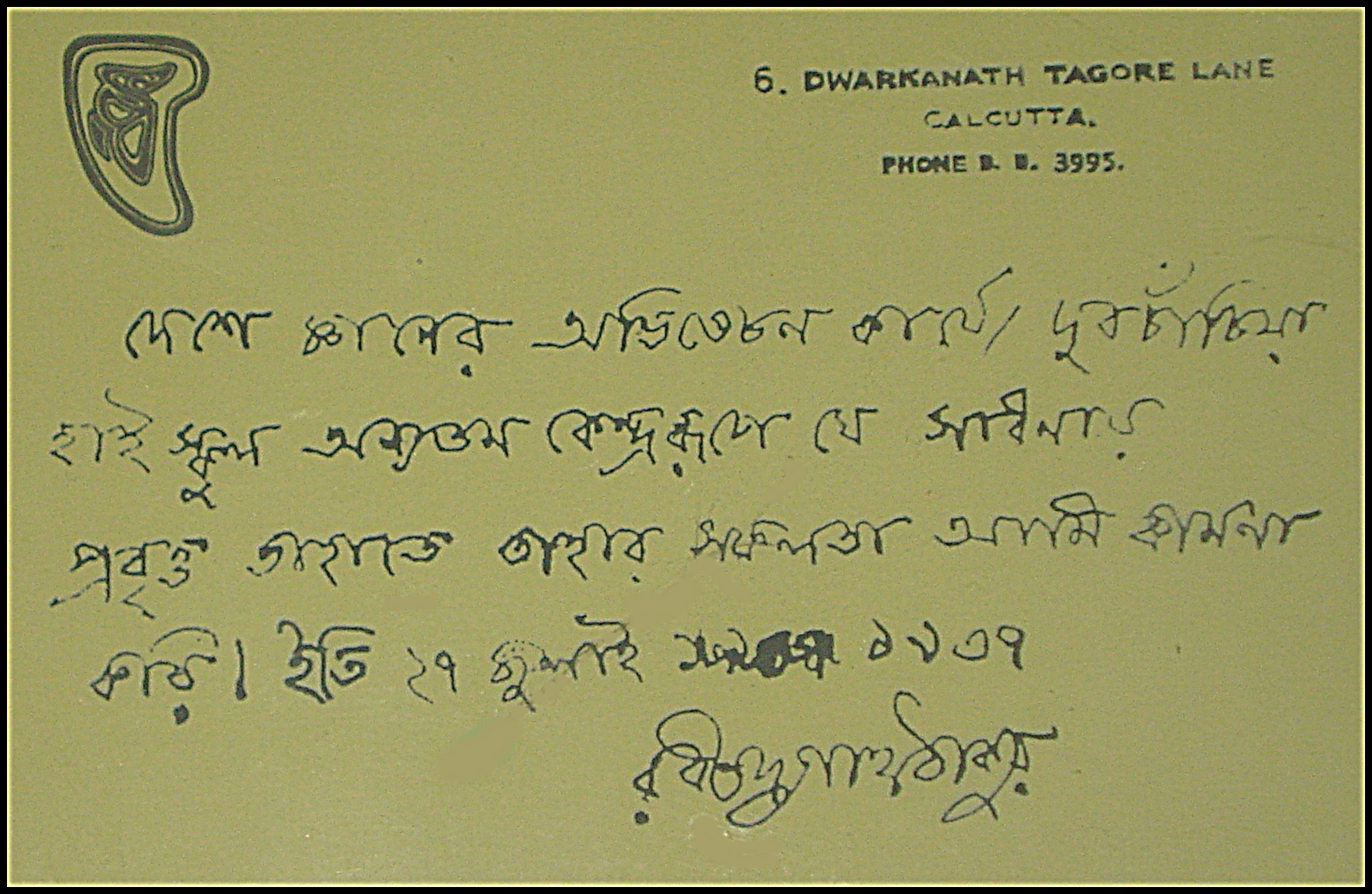 Calligraphy of Rabindranath Tagore